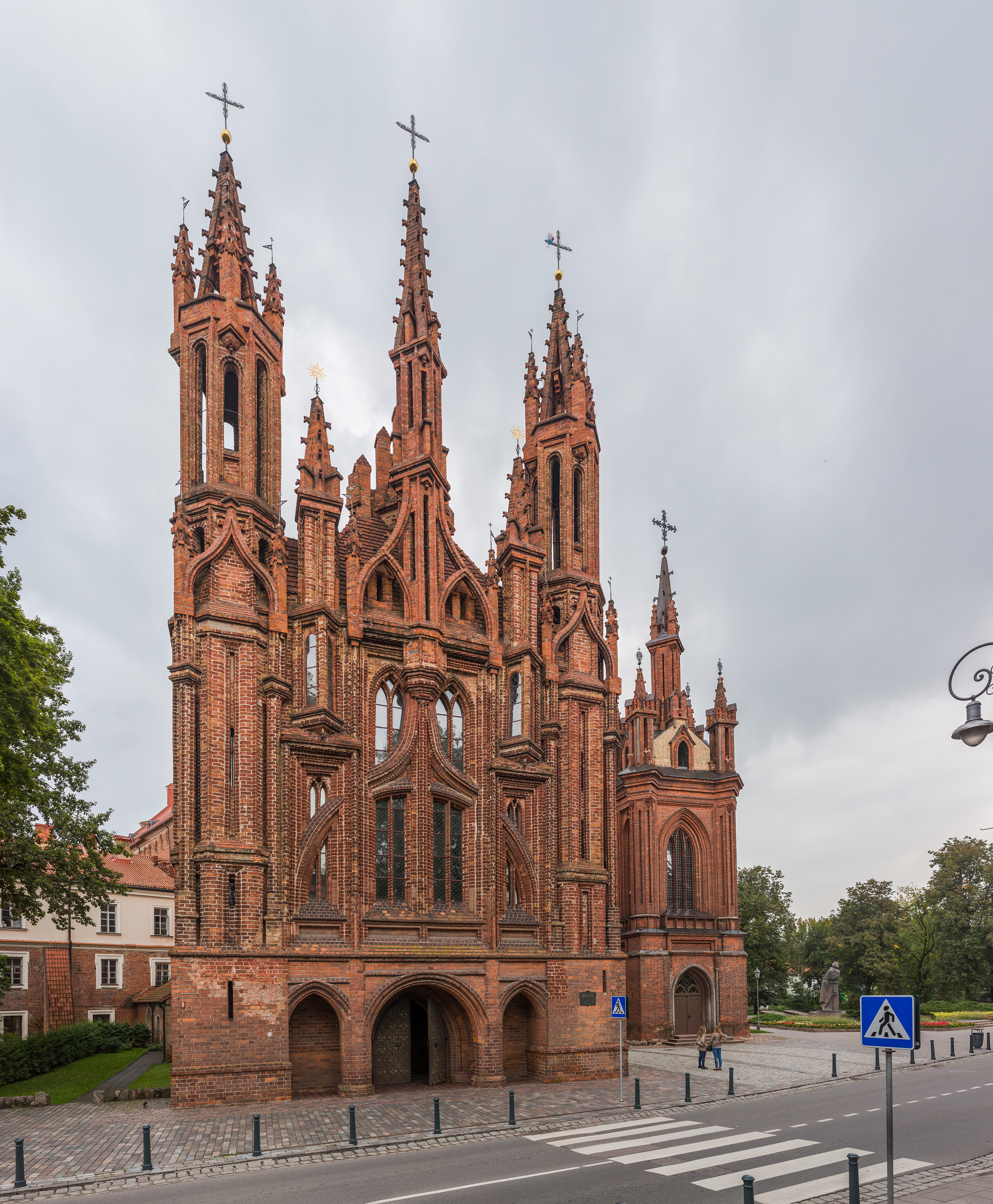 The exterior of St Anne's Church in Vilnius, Lithuania.